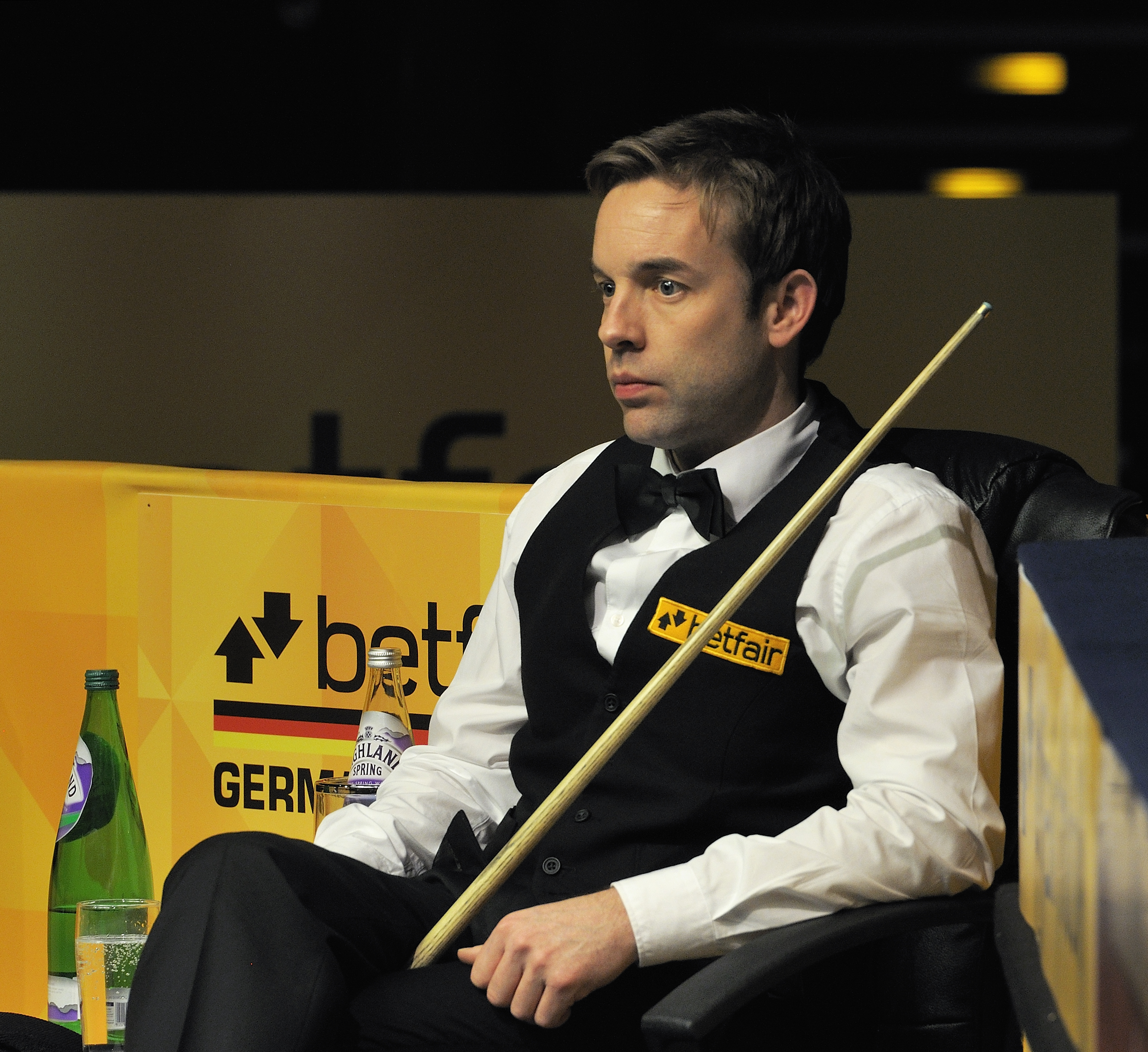 Picture taken in Berlin during the Snooker German Masters in 2013. Ali Carter.